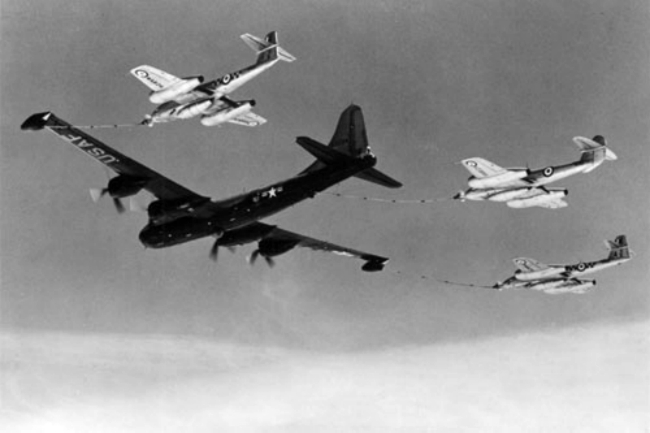 The sole Boeing YKB-29T (45-21734) refuels three Royal Air Force Gloster Meteor fighters.